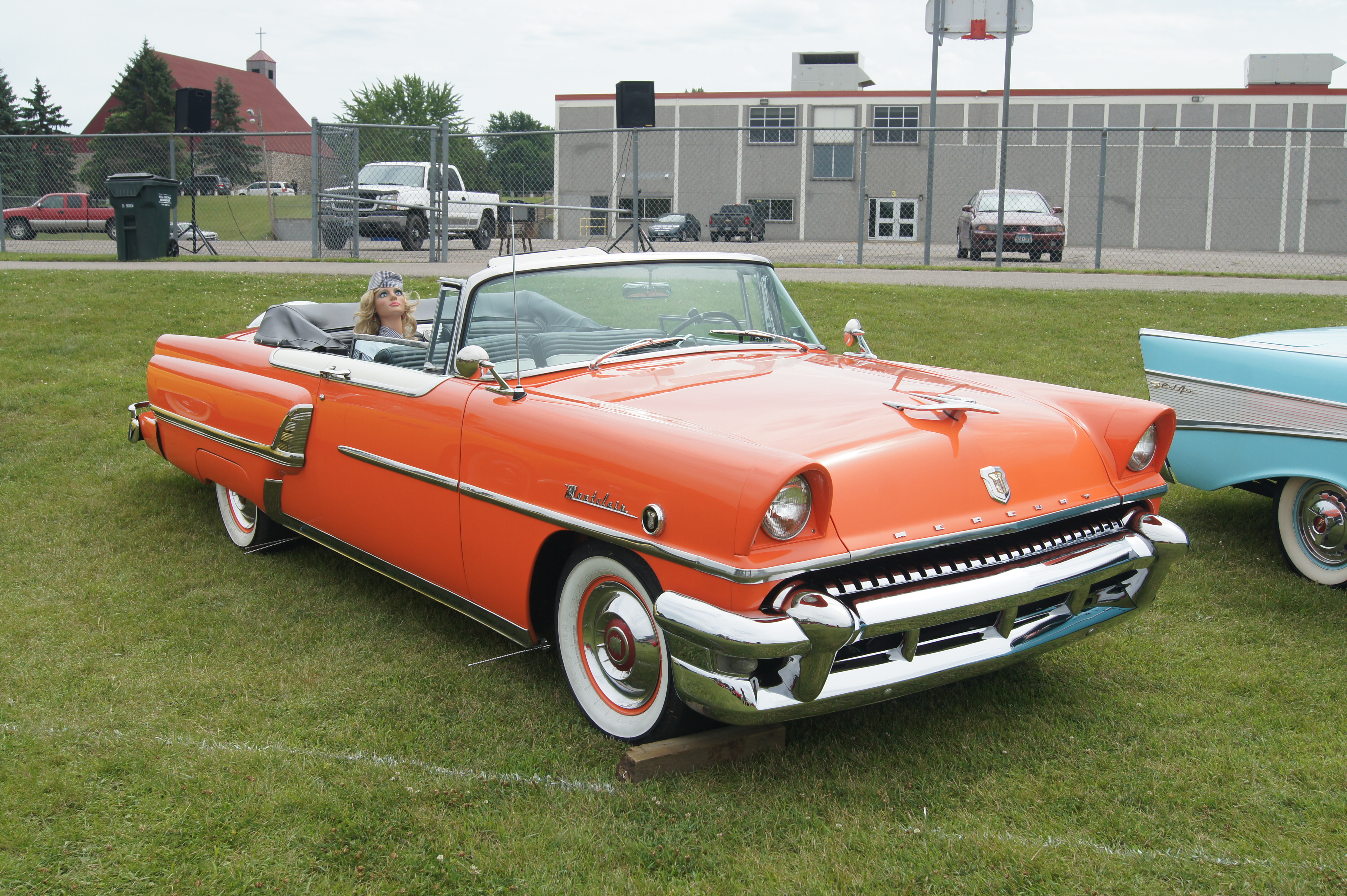 CS Street Machines Car Show July 2015 Cold Spring, Minnesota